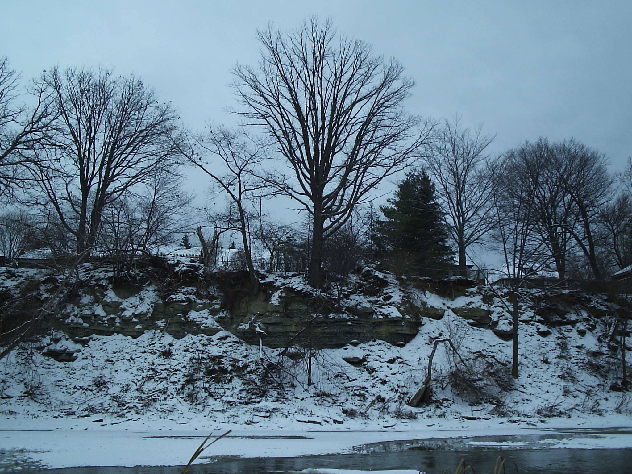 Etienne Brulé Park Nov.26.2005